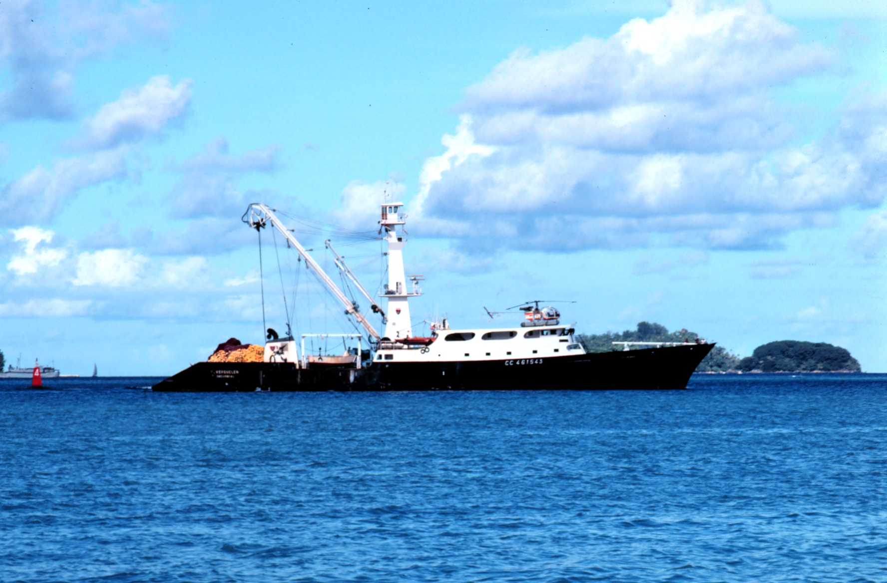 French tuna purse seiner F/V Kerguslen at Mahe, Seychelles. Note helicopter on flying bridge. It is used to visually search for schools of tuna.